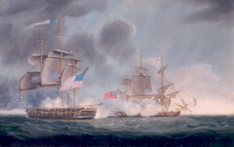 The American frigate USS President fires on and disables the British sloop HMS Little Belt on May 16, 1811.